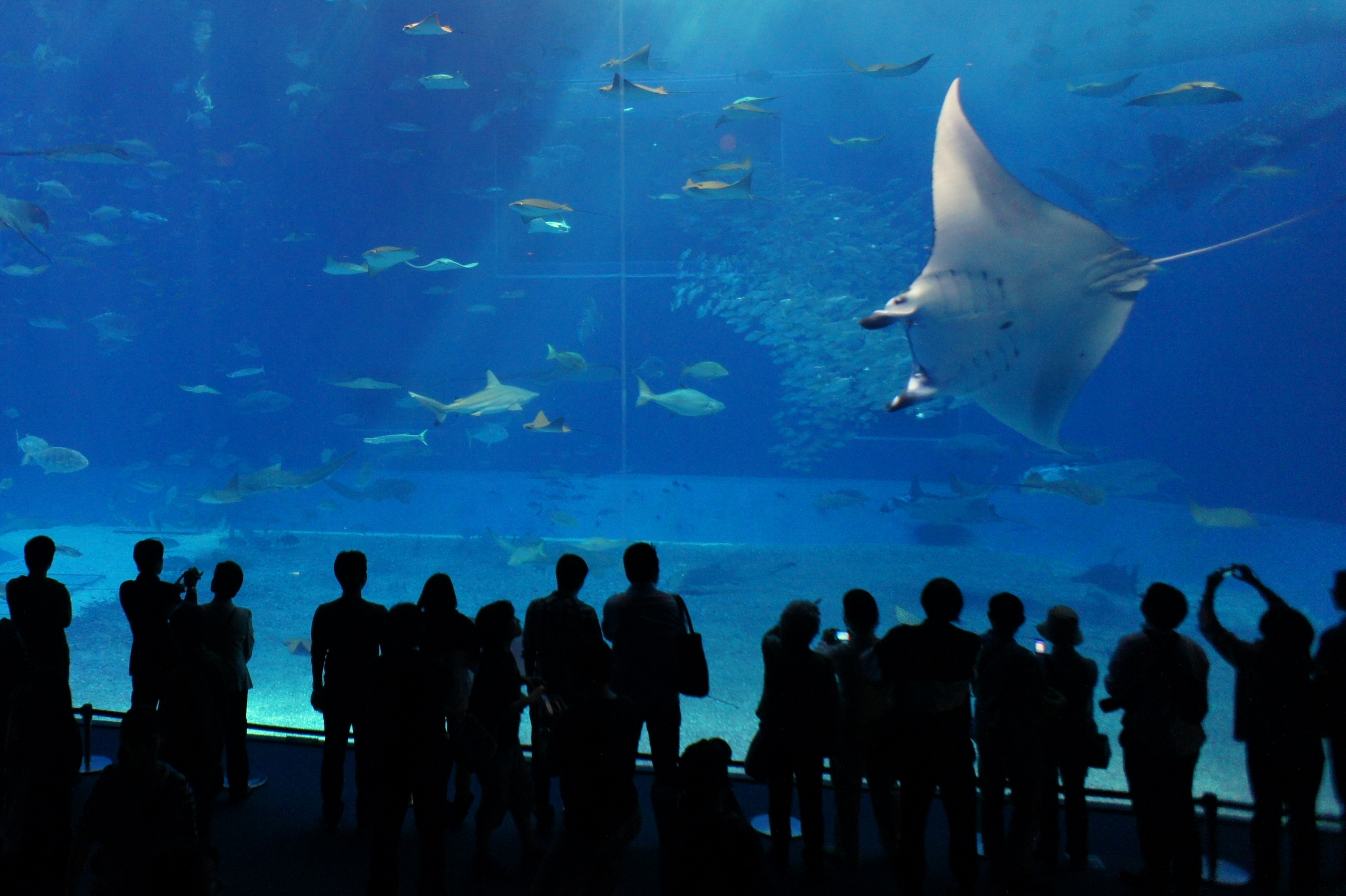 A mobula in the Okinawa Churaumi Aquarium.